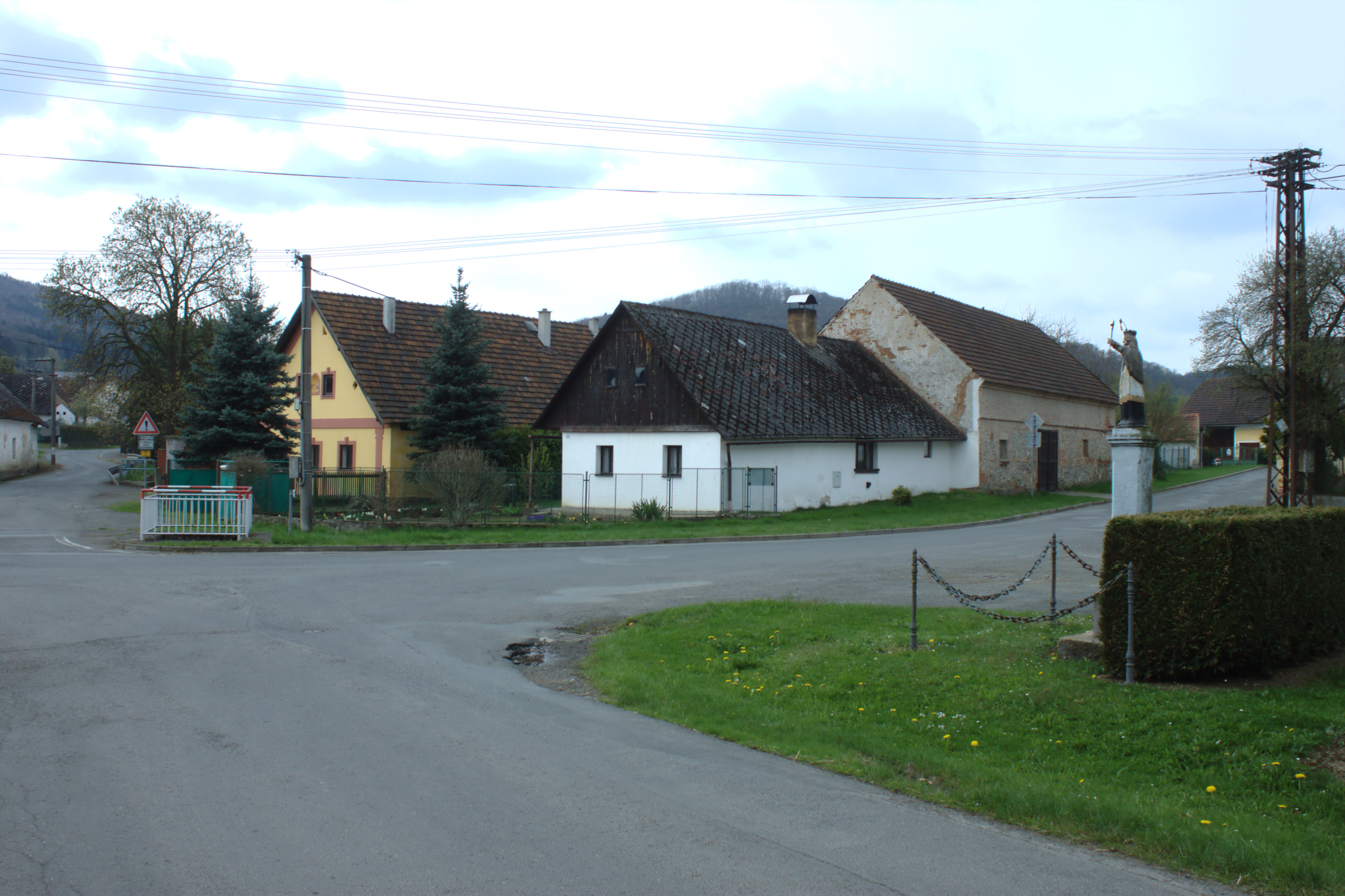 A common in the village of Němčice, Plzeň Region, CZ